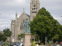 View of Queen Victorias Statue and Queens Cross Church in the area of Queens Cross, Aberdeen, Scotland. Category:Aberdeen